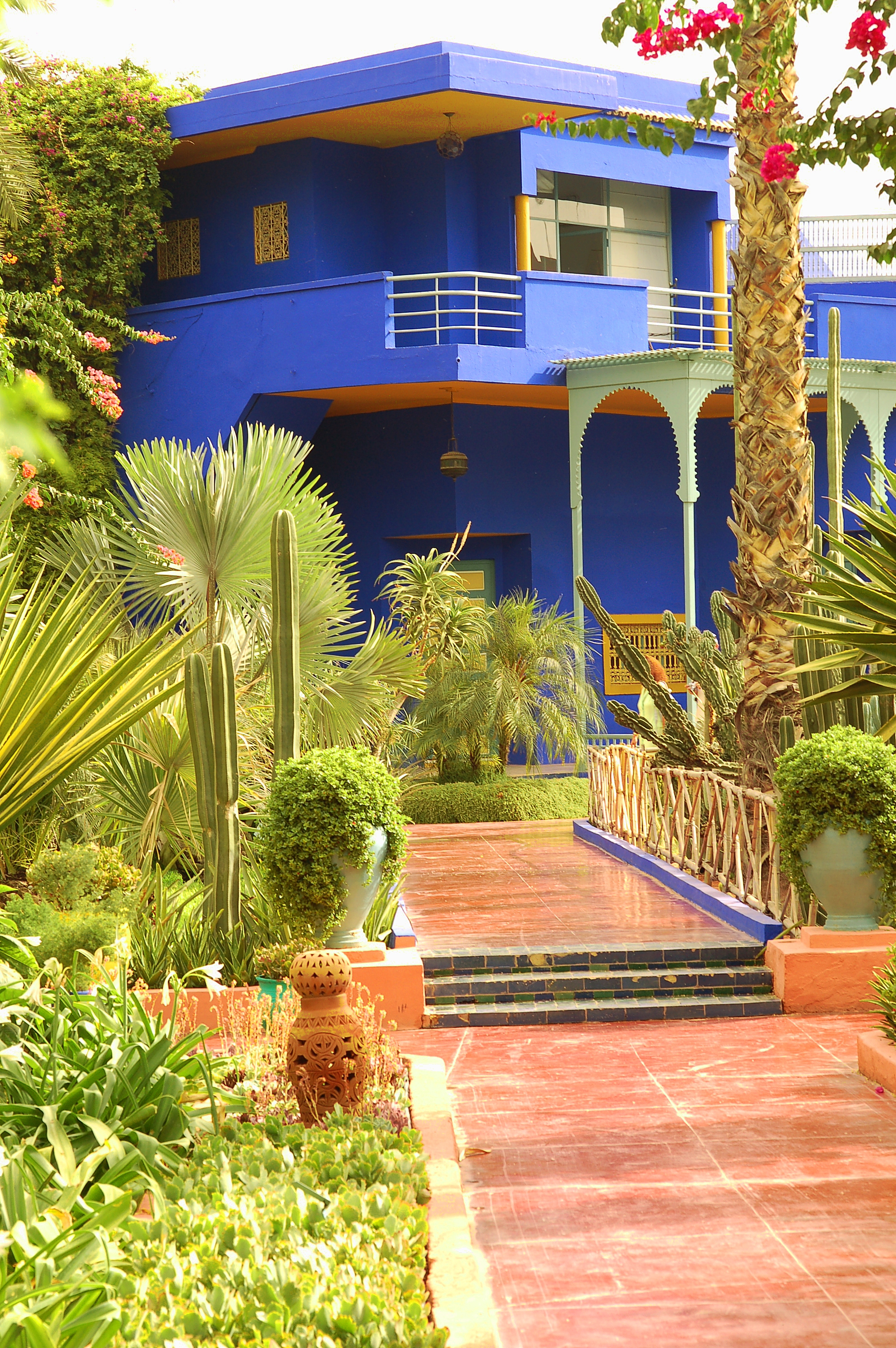 Maroc Marrakech city Majorelle garden